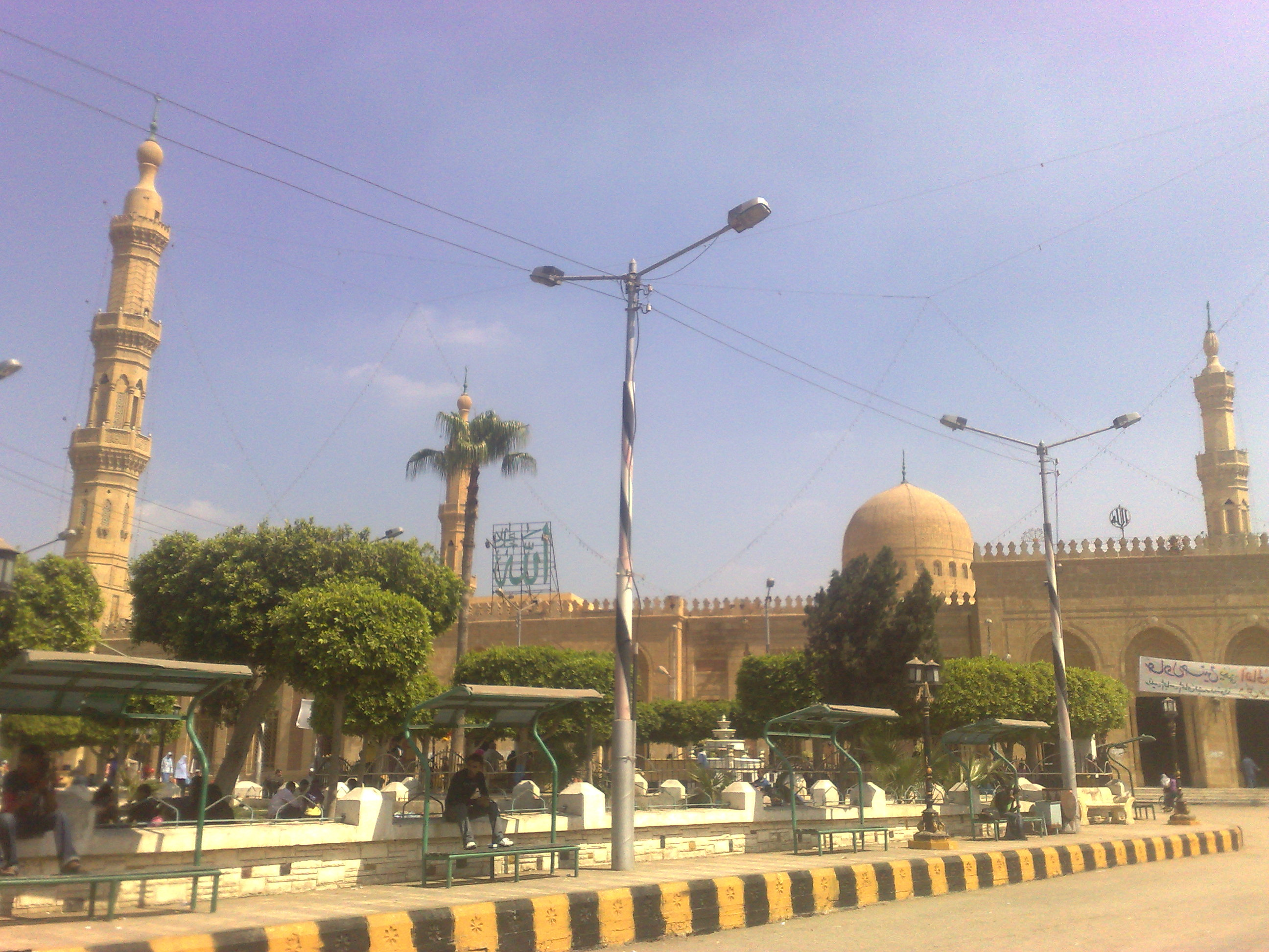 Mosque of Saint Ibrahim El-Desouki